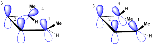 A drawing for the Moebius-Hueckel Concept article. Two modes of butadienes closing